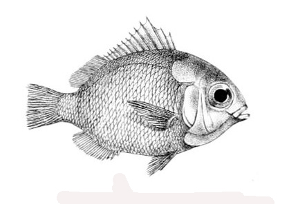 Tholichthys, a postlarval stage of Chaetodontidae, Scatophagidae and Ostracoberyx.